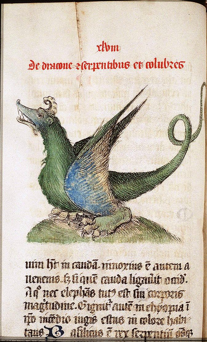 Dragon in the Liber Floridus of Lambert of St Omer anno 1460